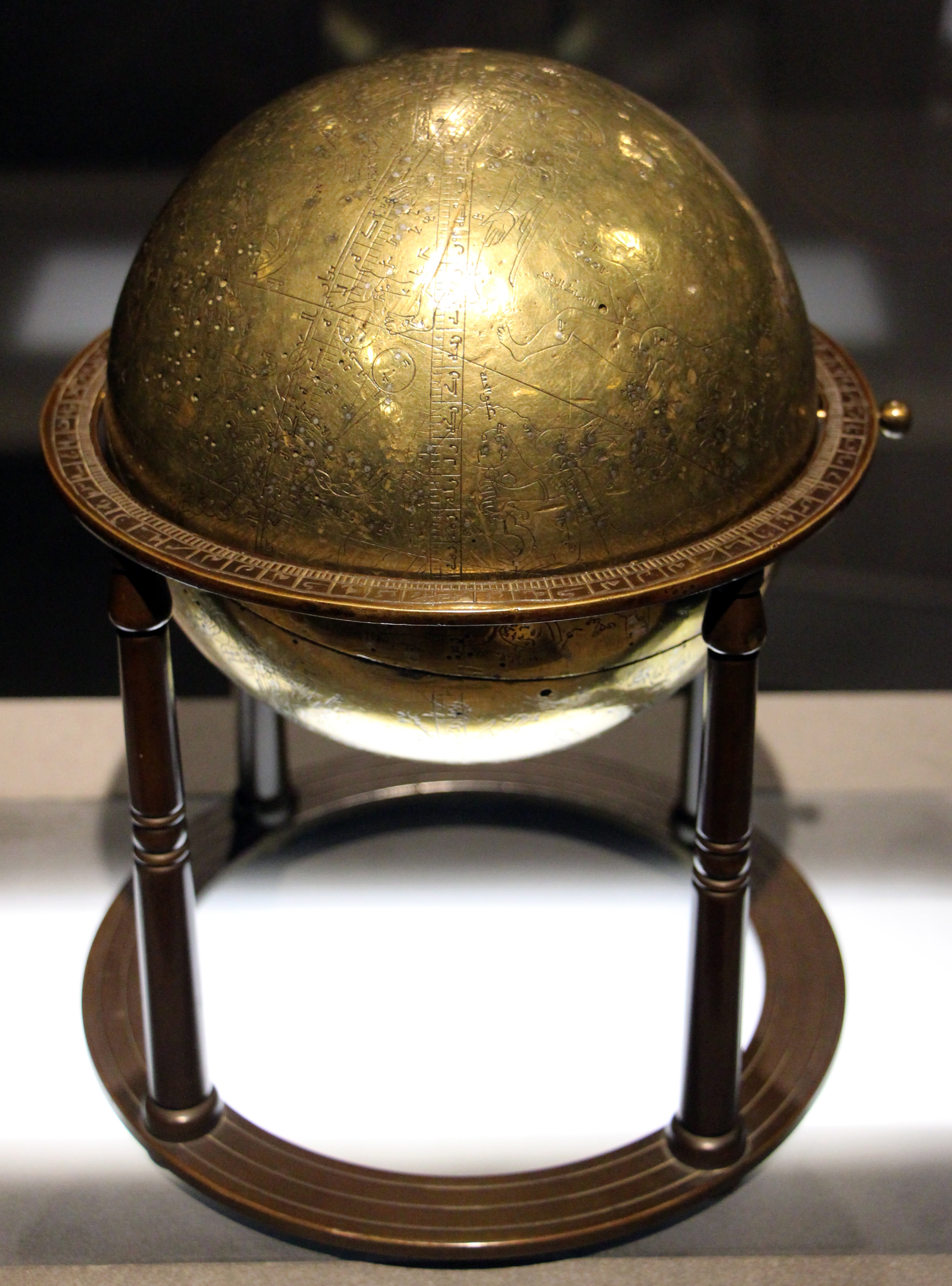 Islamic art in the Louvre